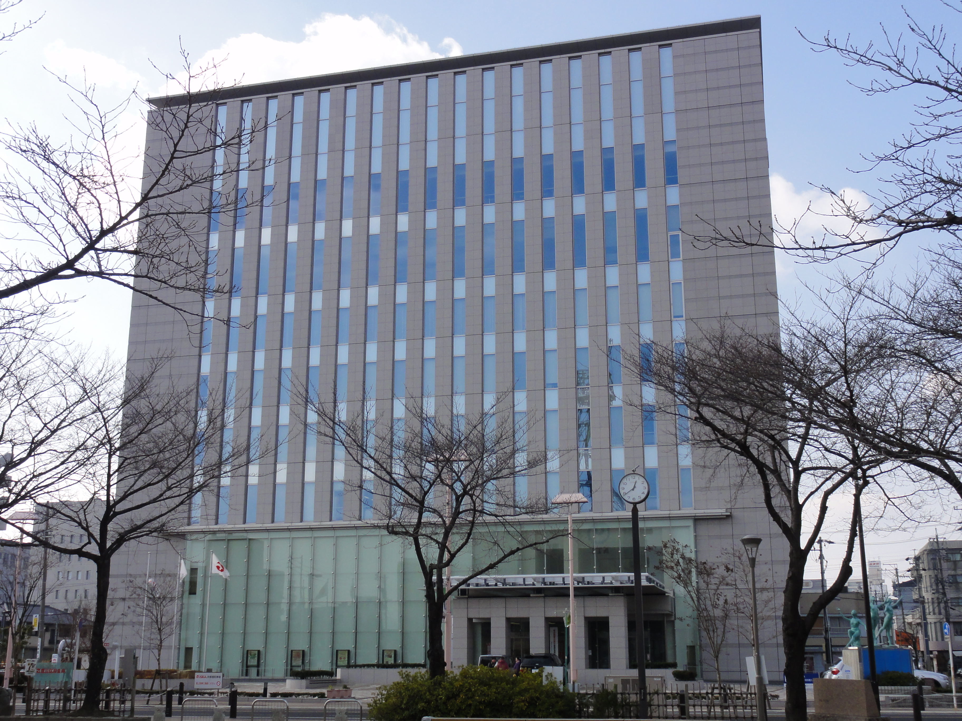 Toyota shinkin bank(Head office), Aichi prefecture, Japan